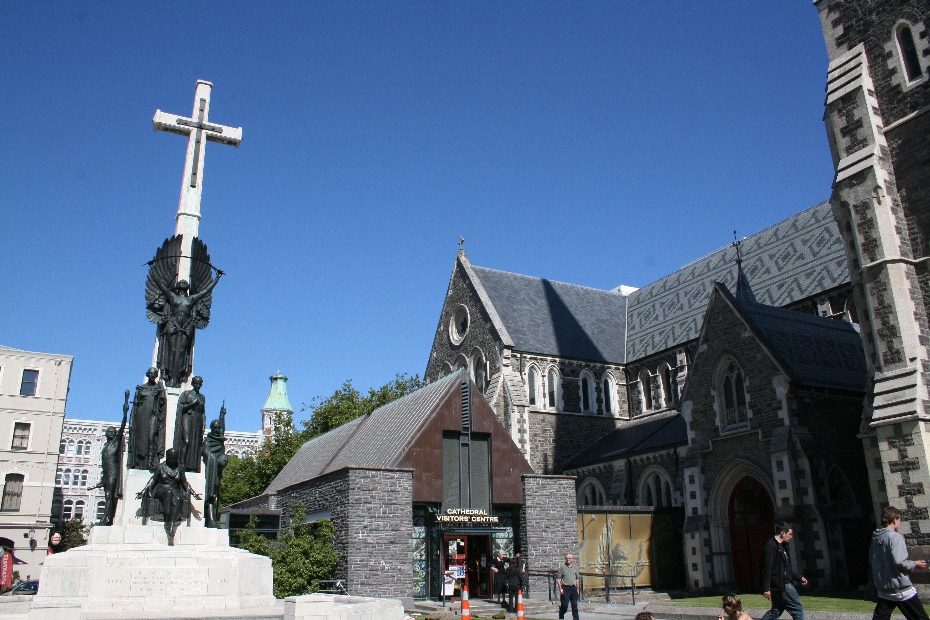 ChristChurch Cathedral, Christchurch, New Zealand